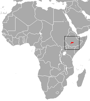 Bale Mountains Vervet (Chlorocebus djamdjamensis) range